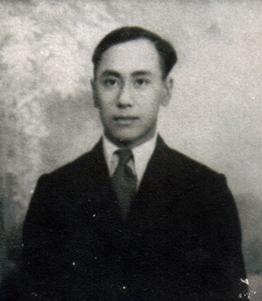 Portrait of Nepalese trader and transport pioneer Lupau Ratna Tuladhar (1918-1993).